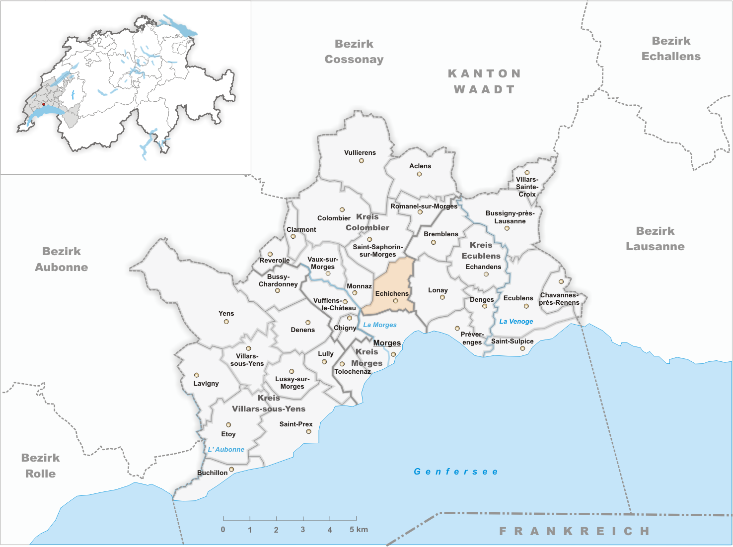 Municipality Echichens